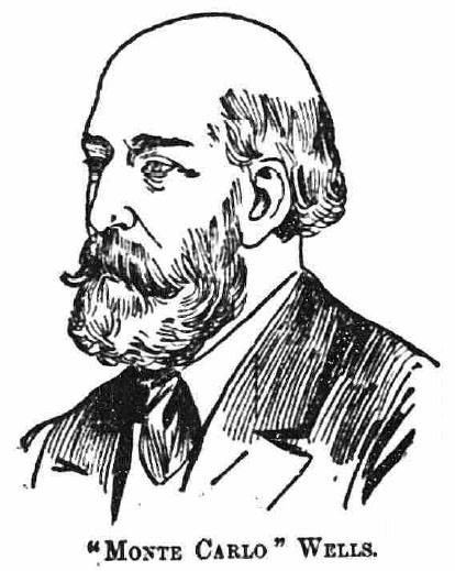 A portrait of Charles Deville Wells, the man who broke the bank at Monte Carlo